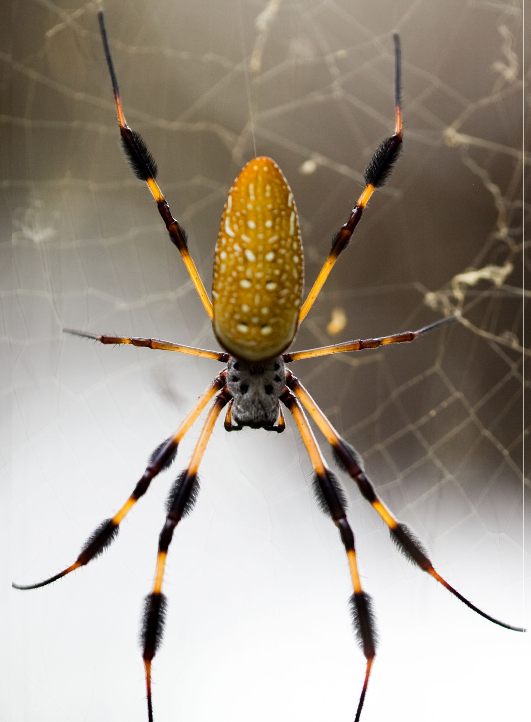 Golden Silk Orb-Weaver or Banana Spider from Florida